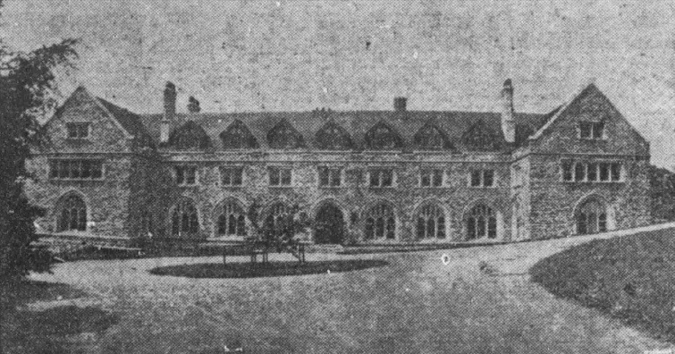 An advertisement for St. Albans School (Washington, D.C.) as seen in a 1910 newspaper.